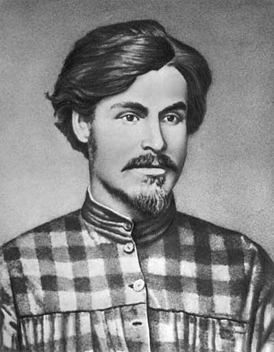 Stepan_Khalturin (1856-1882), Russian Revolutionary